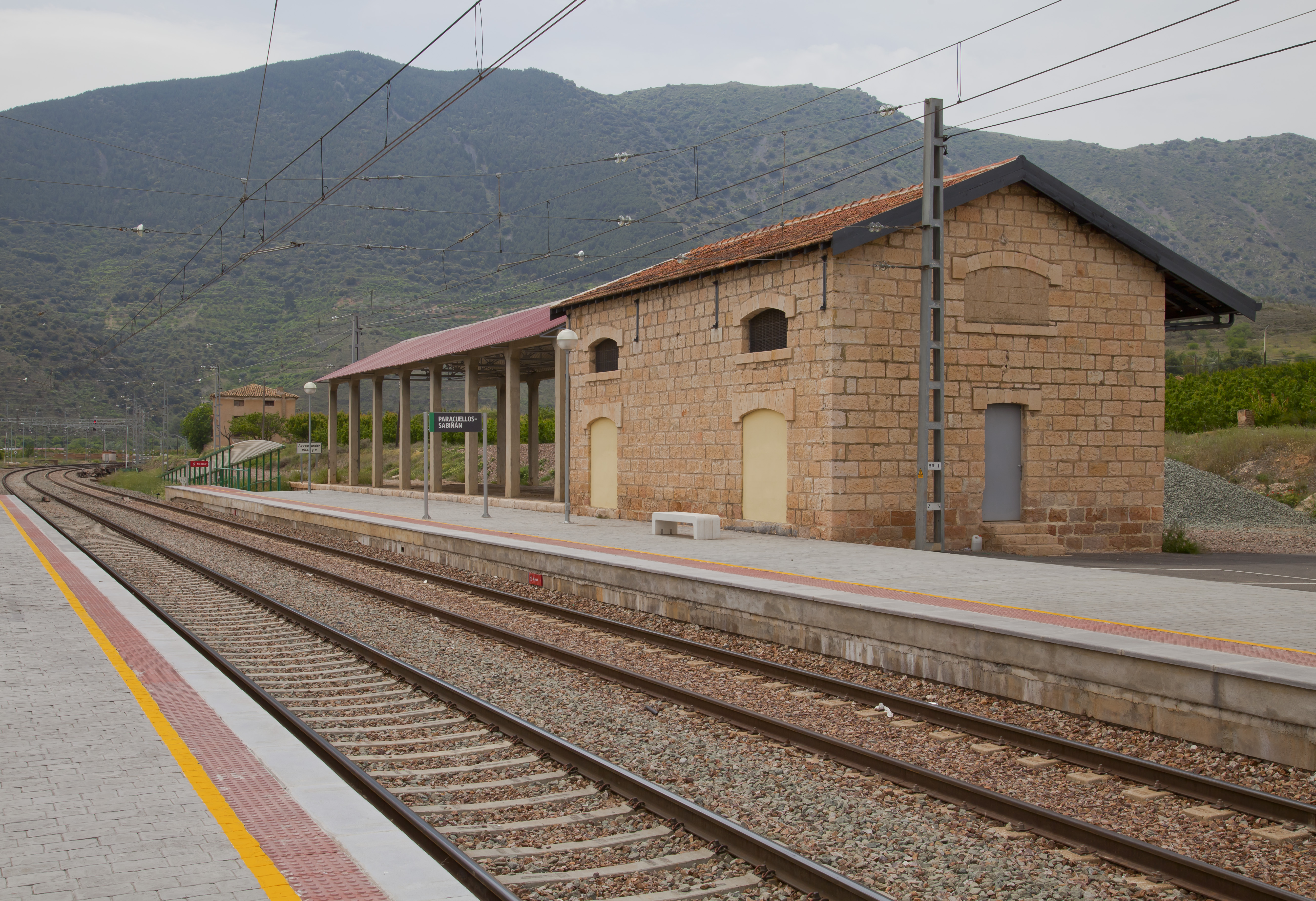 Train station, Paracuellos, Spain